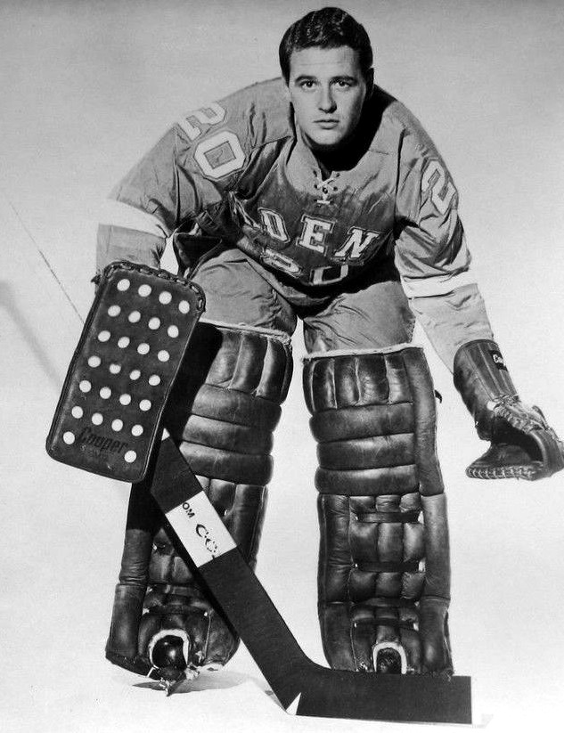 Don Caley on the Phoenix Roadrunners in 1969